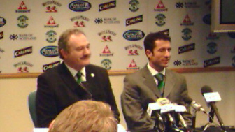 Photo taken at press launch at Hibs Easter Road by Henry Wood